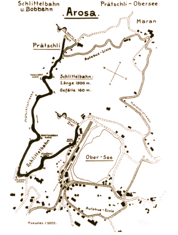 Prätschli bob-run Arosa